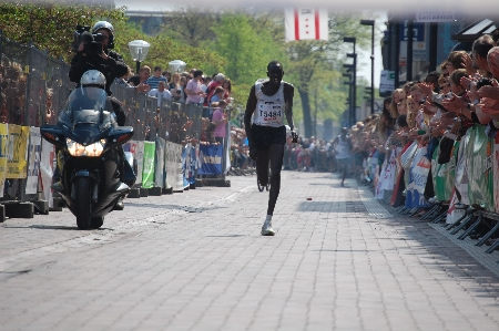 winner Cascaderun 2009